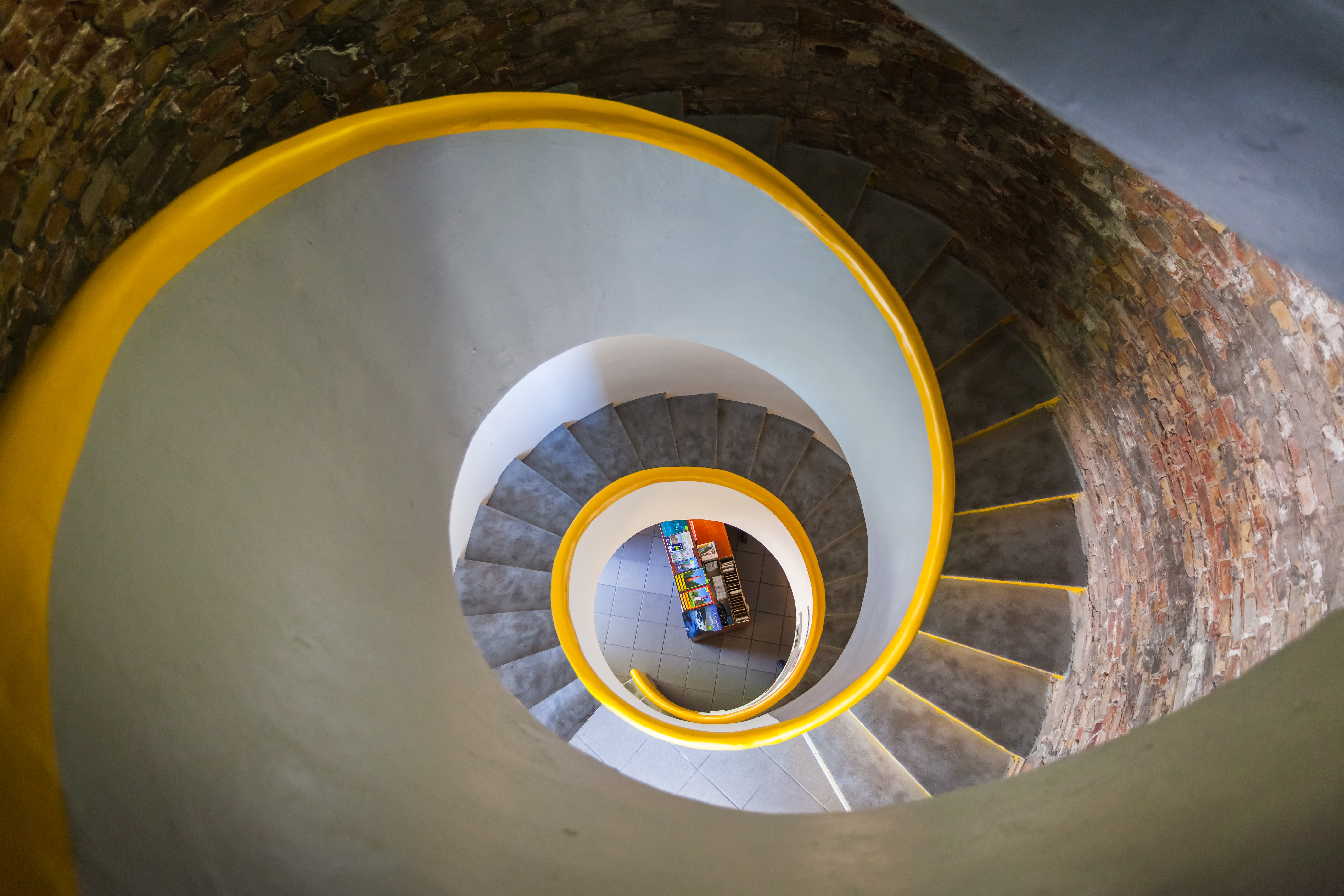 Hel Lighthouse, Poland